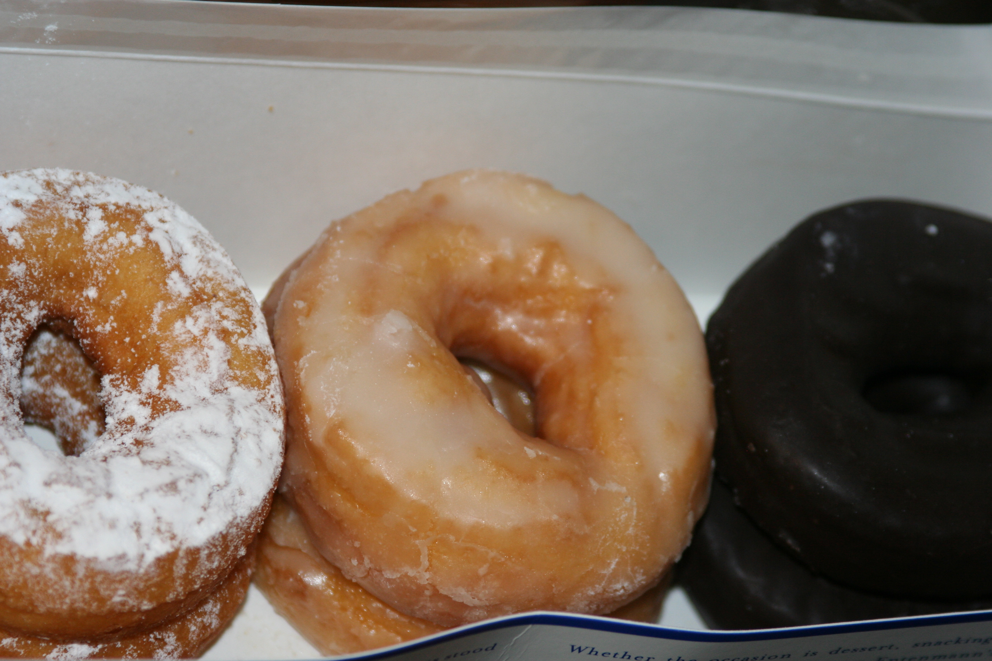 Entenmann's powdered, glazed and chocolate dougnuts in variety pack.